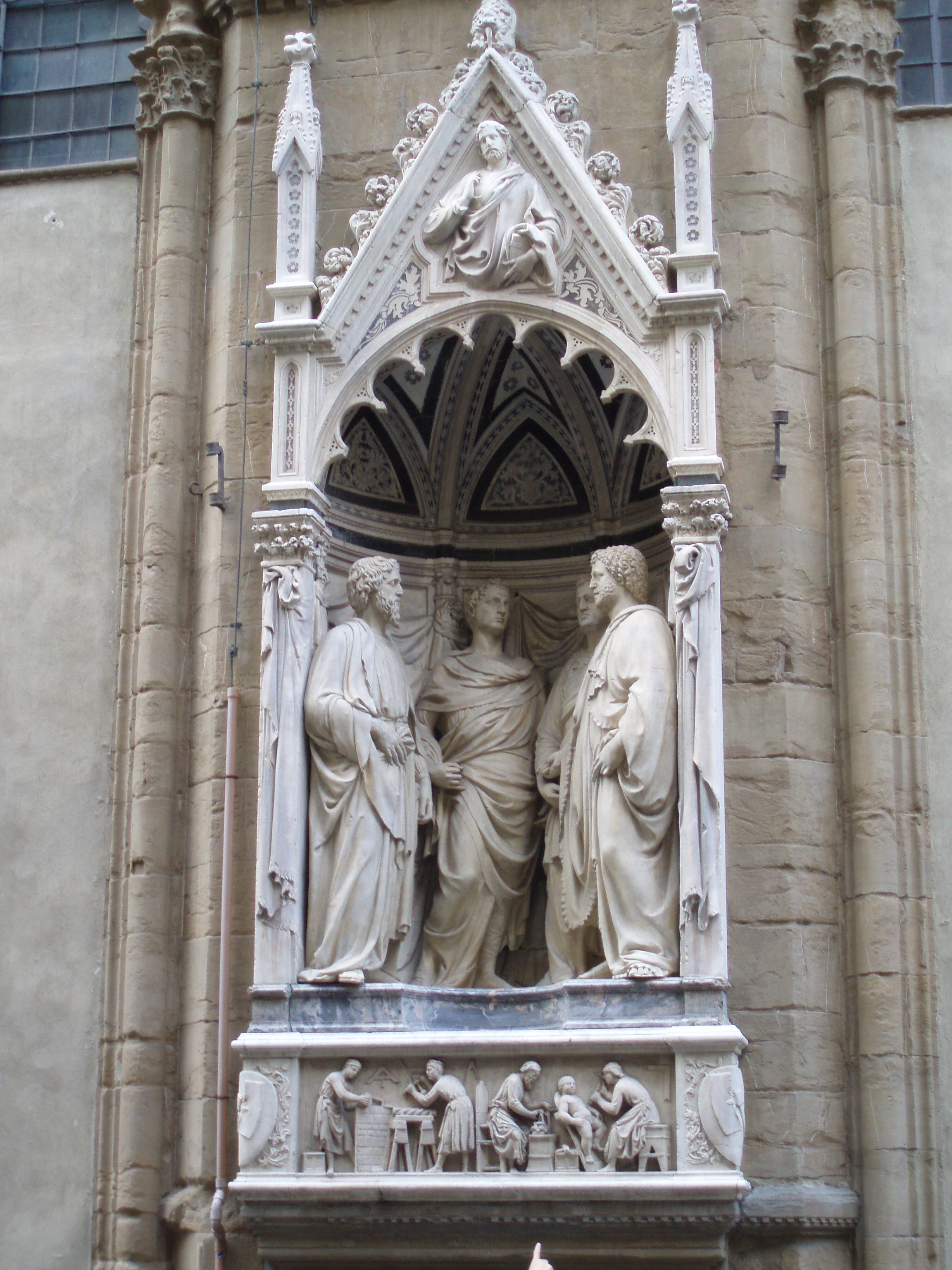 The Four Crowned Saints. Statue commissioned by the Arte dei Maestri di Pietra e Legname (guild of wood and stone cutters), Orsanmichele, Florence.